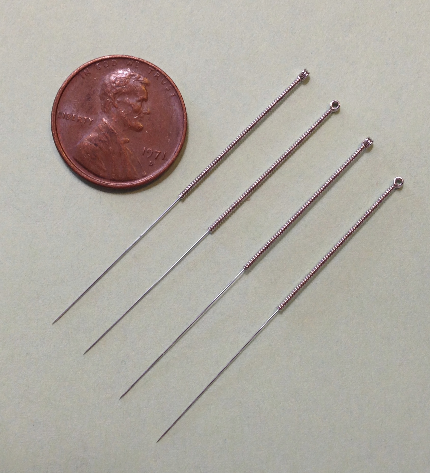 These are 0.22mm diameter stainless steel acupuncture needles of 25mm length compared with the size of a penny. This is often referred to as a 1" acupuncture needle. The handle is the traditional Chinese Medicine style and is wound.